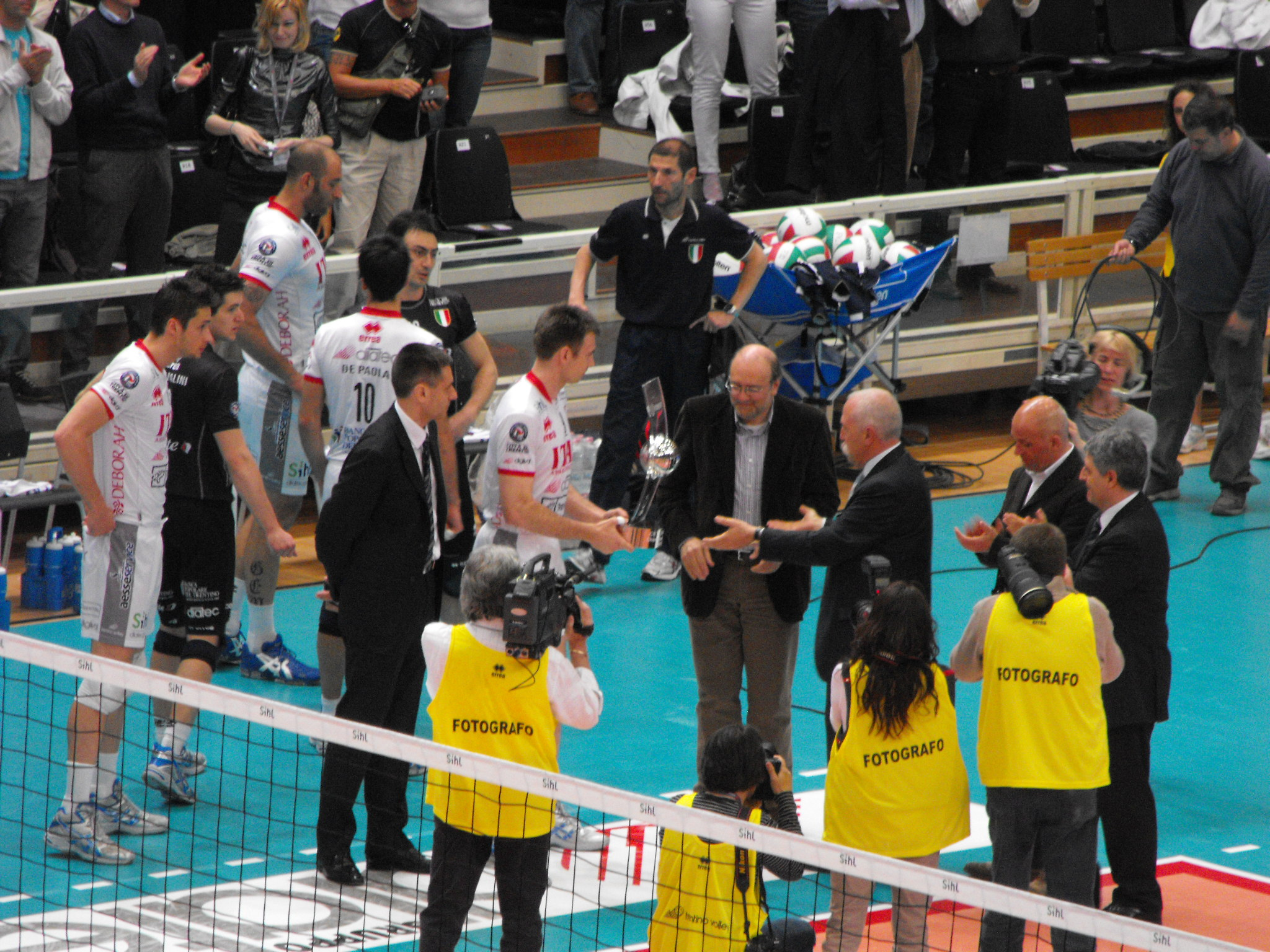 CEV Indesit Champions League 2008-2009 shows in PalaTrento by Nikola Grbic (captain) and Radostin Stoytchev (coach). There are also Diego Mosna (president of the team) and Lorenzo Dellai (president of the Province of Trento).